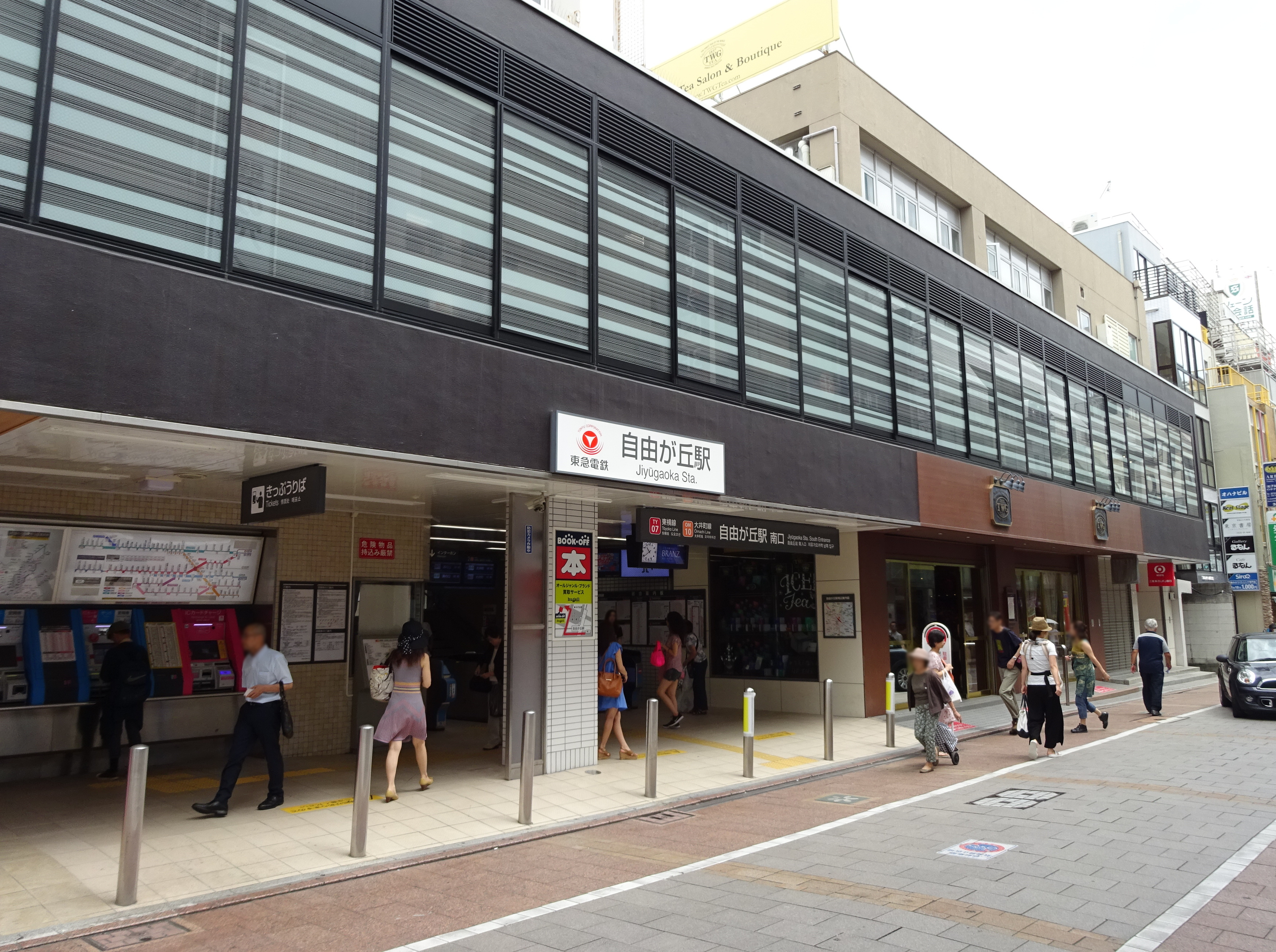 South Entrance of Jiyūgaoka Station (Tokyo)